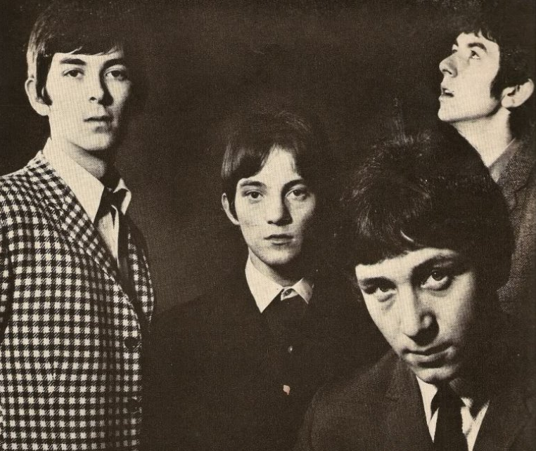 British rock band Small Faces in 1966. Left to right: Ian McLagan, Steve Marriott, Kenney Jones, Ronnie Lane.